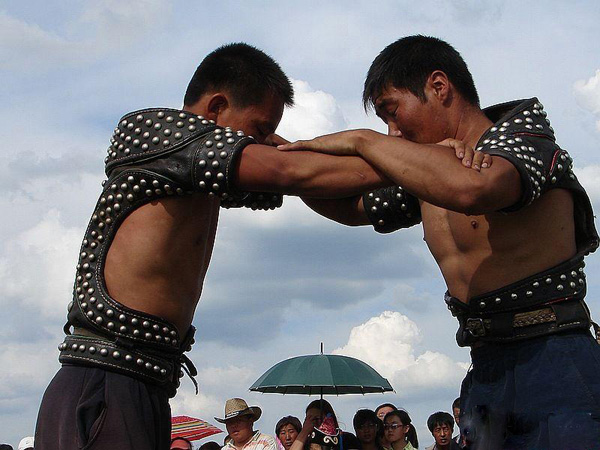 Two Daur men wrestling in Inner Mongolia (while other people, one holding an umbrella, watch).